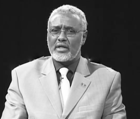 Dareema Caddo waa deegaan Caraale Mahad ah, oo dhulciid ah. Waxaa ka so jeeda ninkii Caraale Mahad ka tirsan ee Indhosheel.